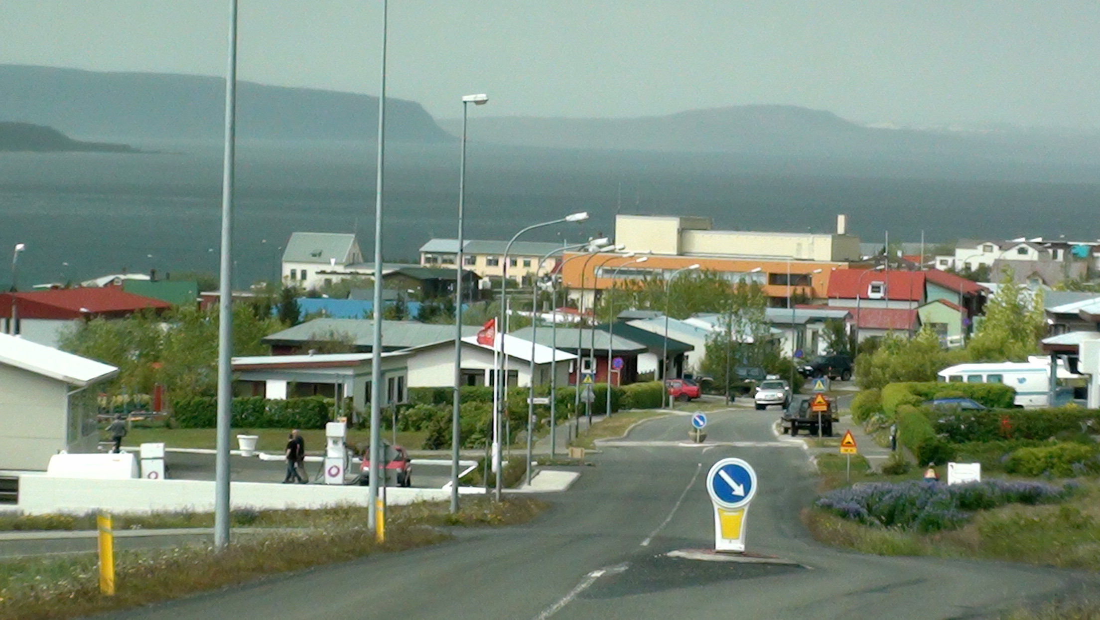 A photo of part of Hvammstangi.